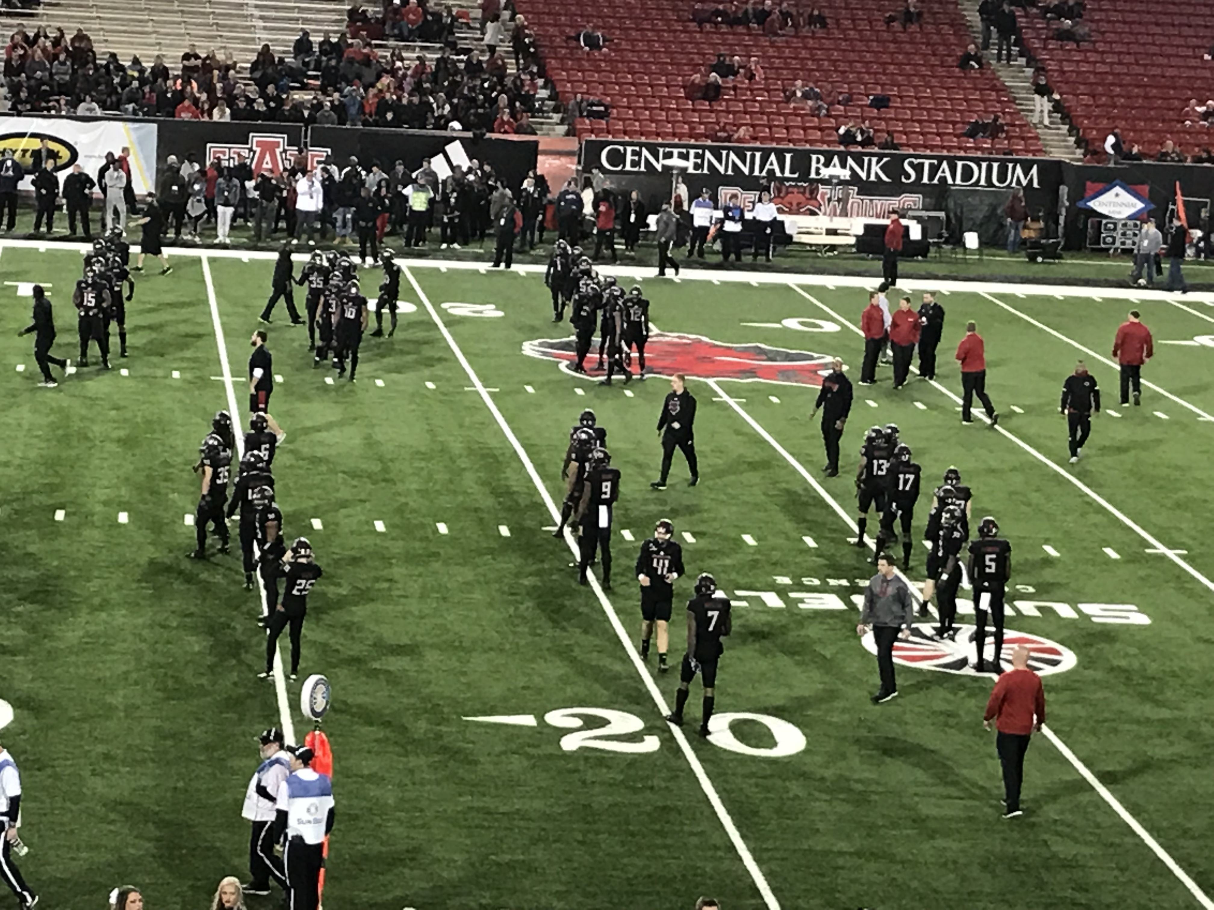 Photo taken during Pre Game at Centennial Bank Stadium for the Arkansas State Red Wolves took on the Troy Trojans on Dec. 2nd, 2017